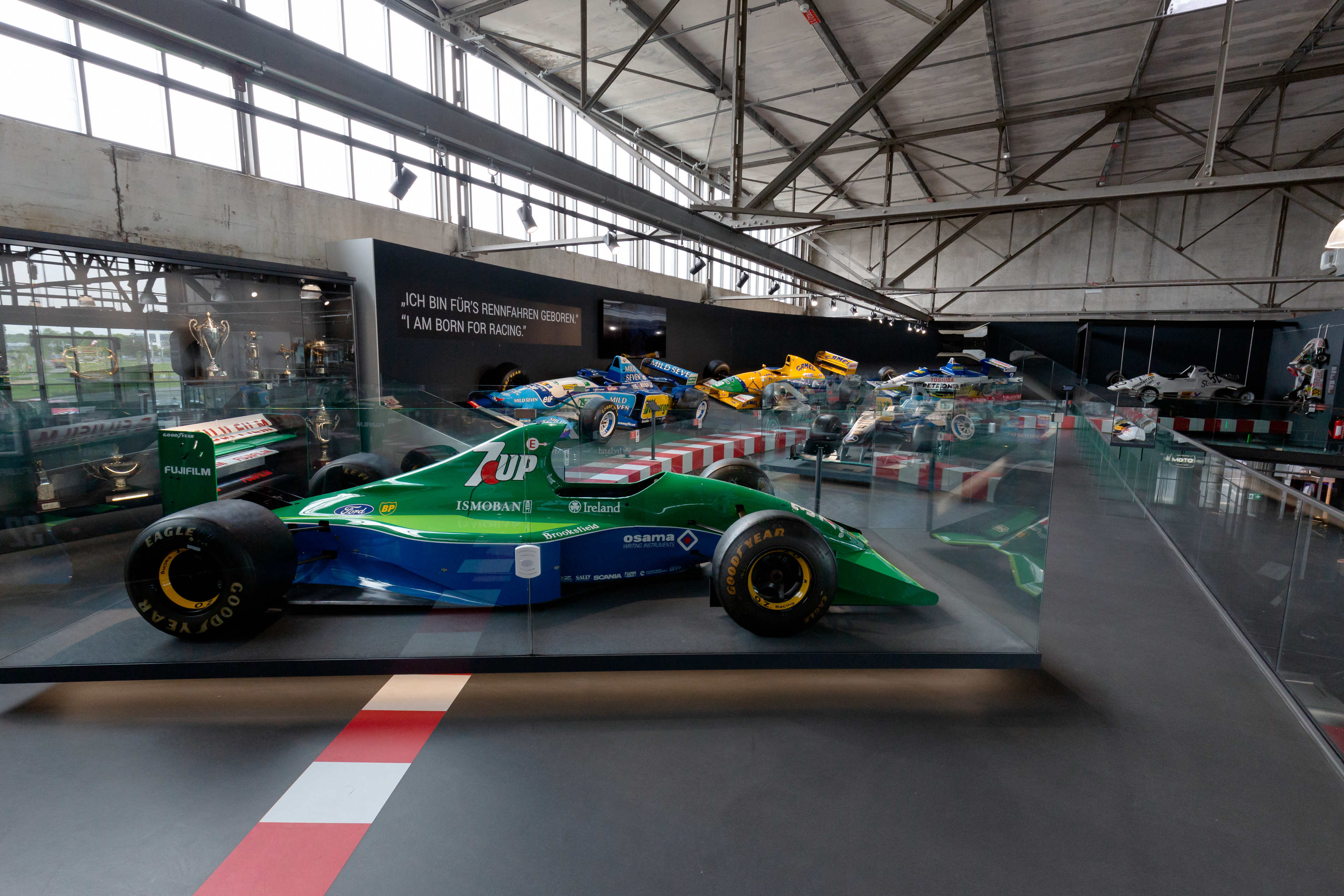 Michael Schumacher Private Collection: Interior